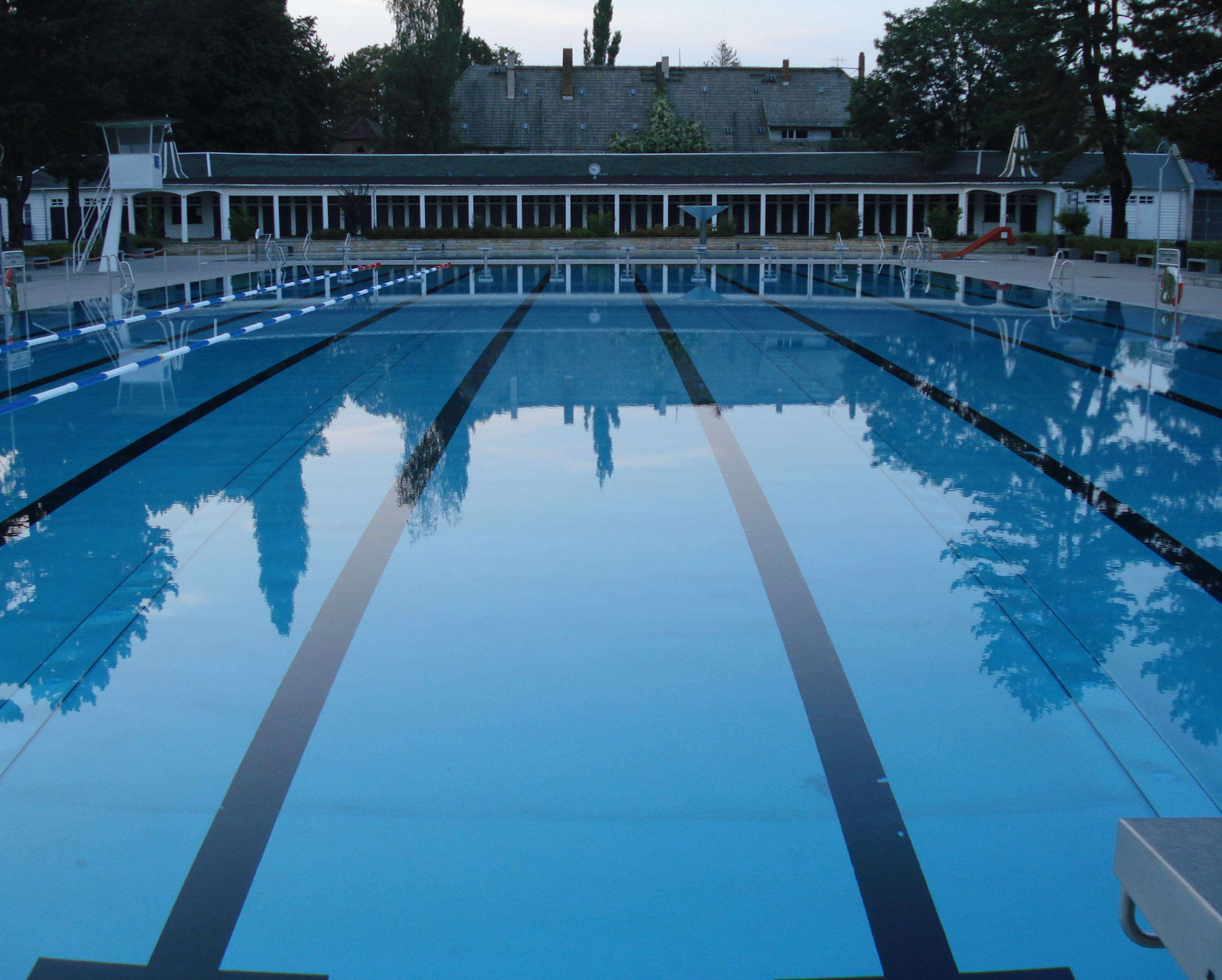 The "Geibeltbad" in Pirna(Saxony).